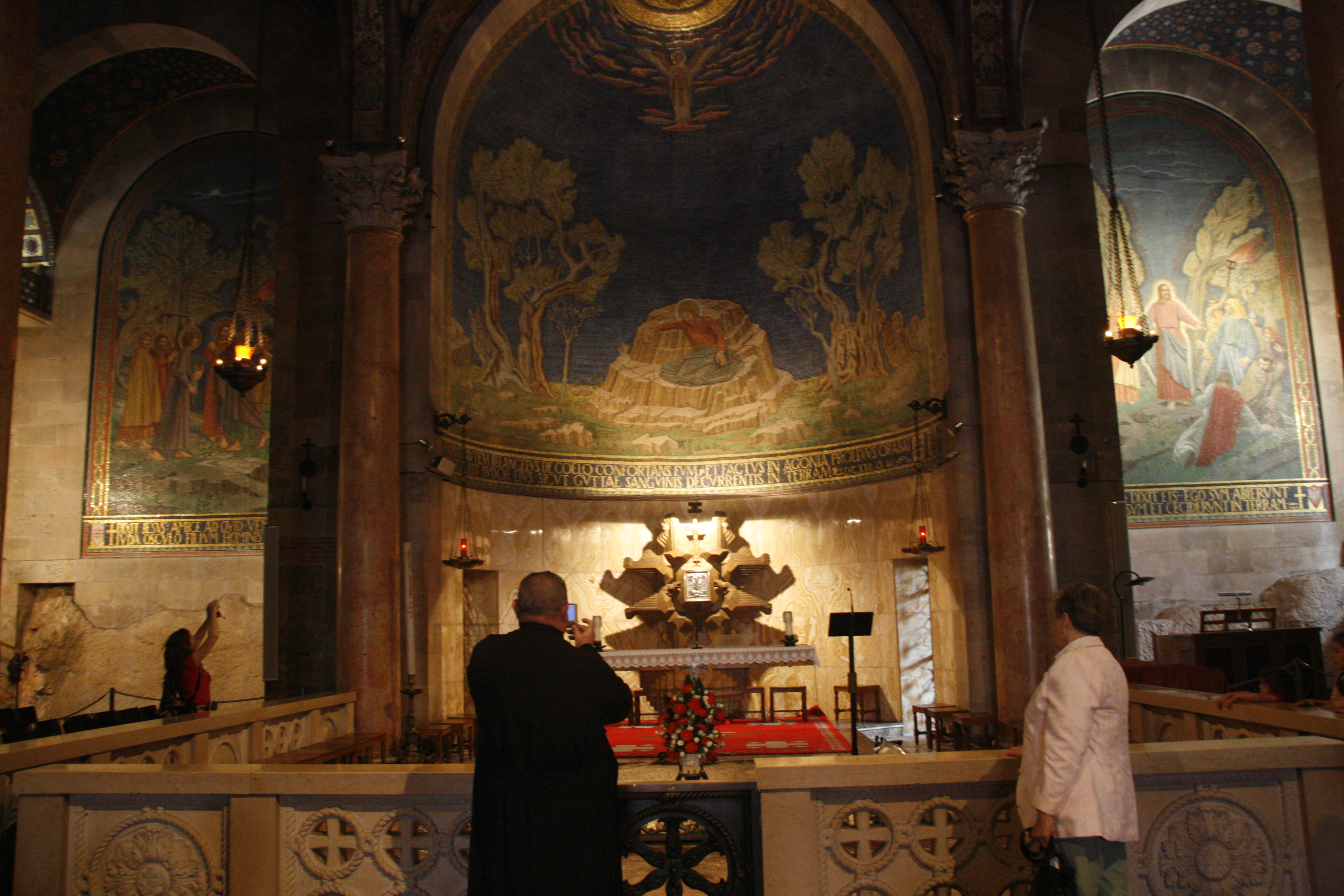 Wiki-tour to mount Olives, East Jerusalem